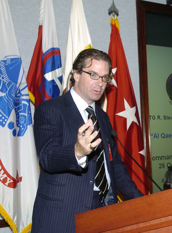 Peter Bergen, CNN's terrorism analyst and author of Holy War, Inc.: Inside the Secret World of Bin Laden answers questions at the Third Army/U.S. Army Central quarterly command professional development program Oct. 26. Bergen spoke to the command's Soldiers on terrosim and how it continues to shape the ARCENT area of responsibility. In 1997, as a producer for CNN, Bergen produced bin Laden's first television interview.